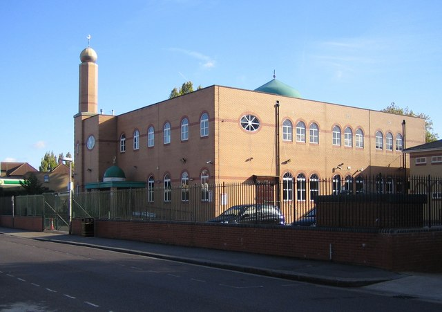 Barking: Al-Madina Mosque Located at the east end of Victoria Road at its junction with Ilford Lane.